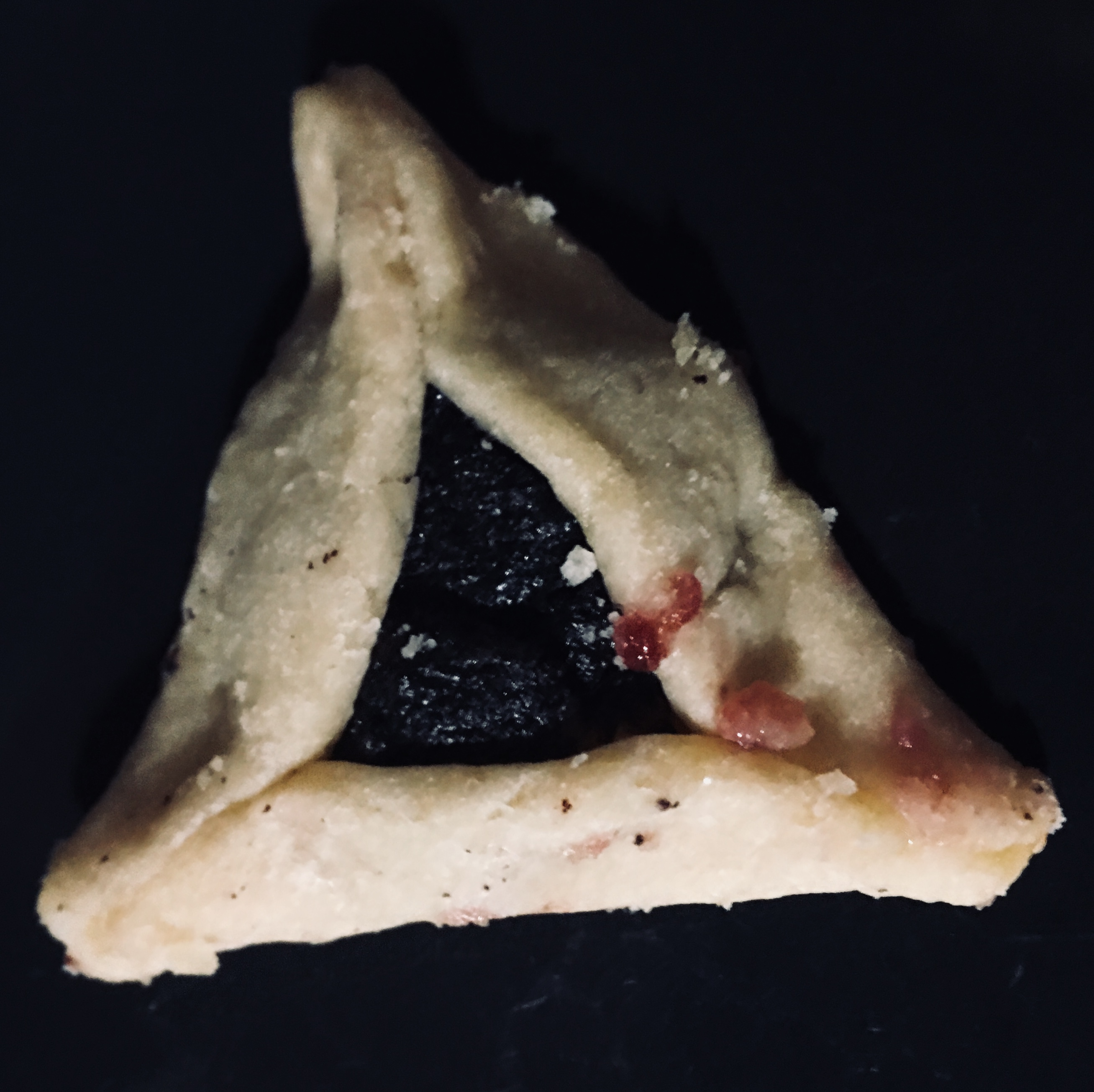 A photo of the mohn (poppyseed) hamantaschen I made